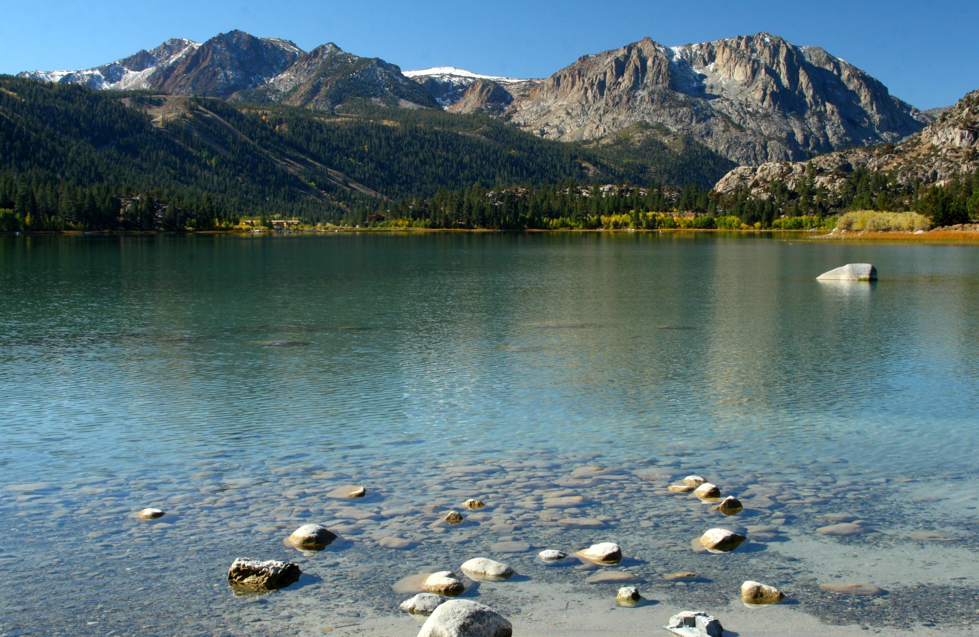 June Lake is a small town south of Lee Vining, Mono Lake, and Yosemite's Tiaga Pass entrance in eastern California. You reach it by taking the June Lake Loop road - a very scenic and short drive. It is a beautiful area with good hiking - and I happened to hit it on a beautiful Fall day in October 2008. This is yet another area to return to and spend more time.